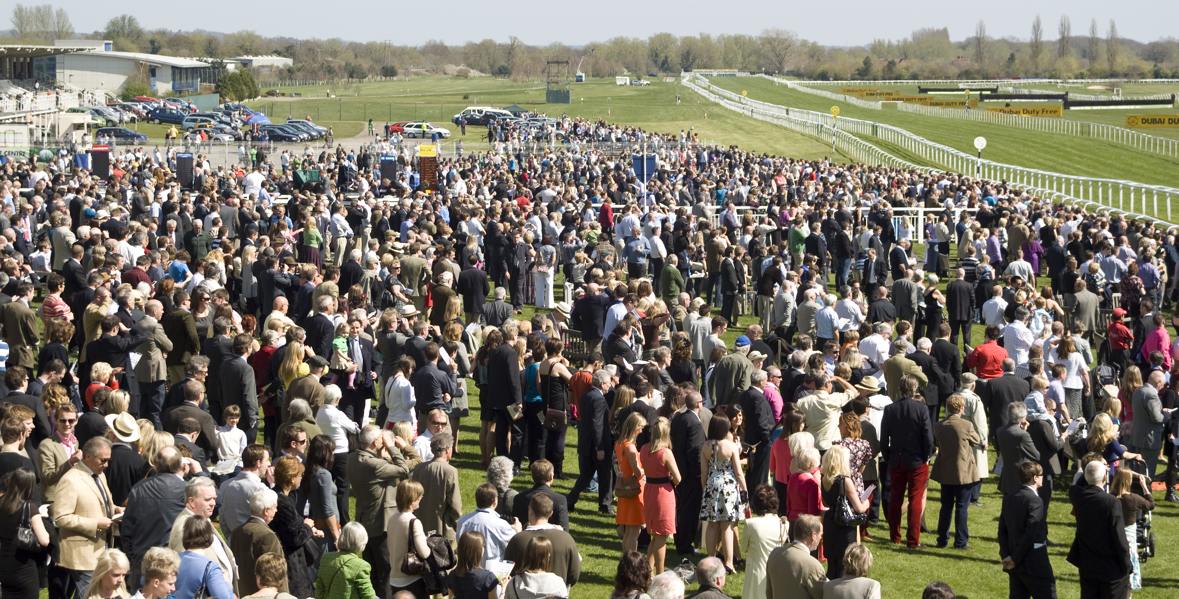 Newbury Race Course, Racing 17th April 2010